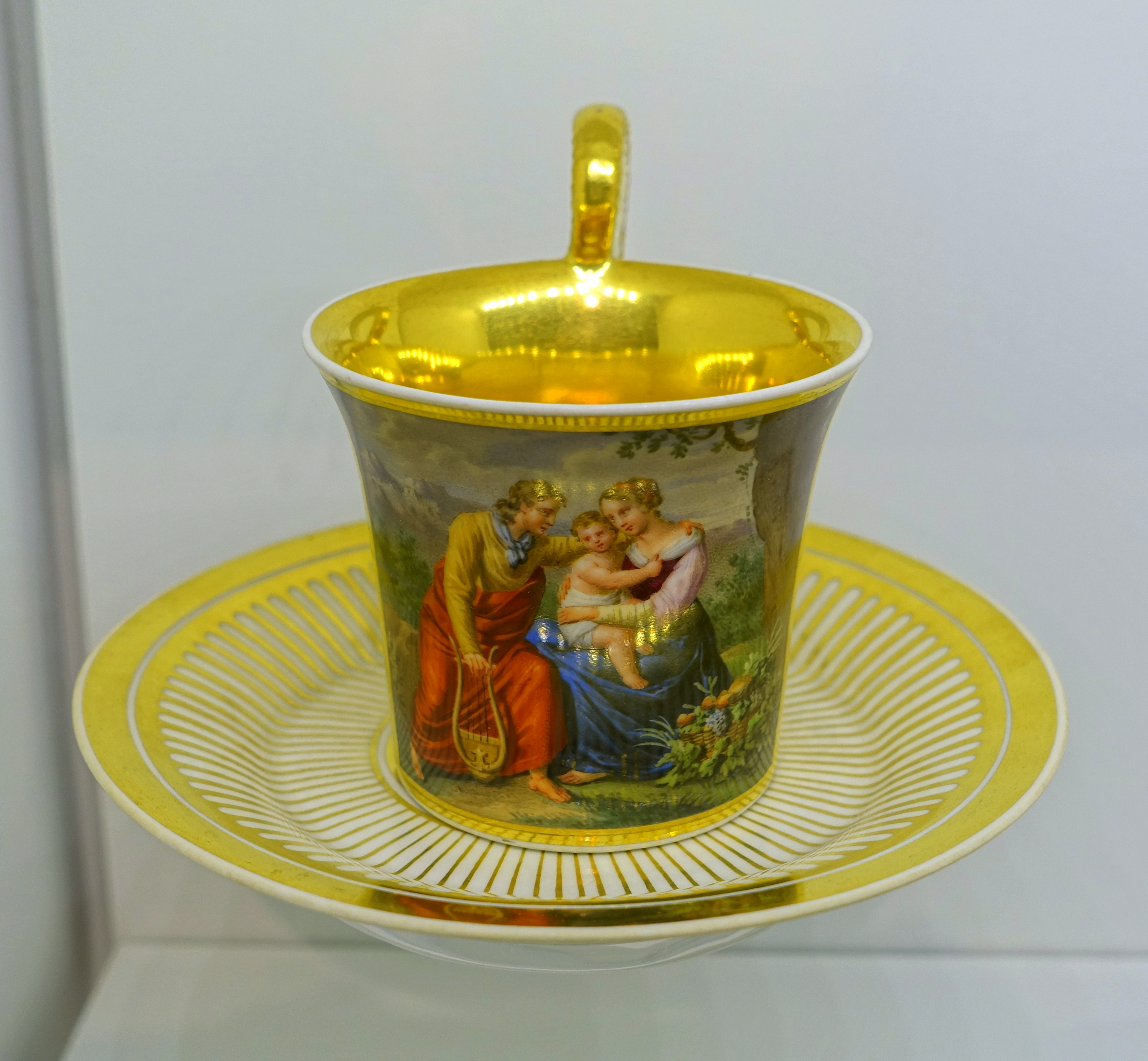 Exhibit in the Montreal Museum of Fine Arts - Montreal, Quebec, Canada.